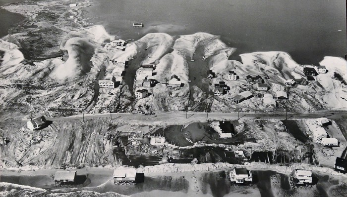 An Army Corps of Engineers aerial photograph shows the devastation from the March storm of 1962 in Harvey Cedars. The storm opened up a new inlet to Barnegat Bay near 79th street. The Army Corps of Engineers listed closing the inlet as a priority project in the expansive repairs the corps made along the Mid Atlantic coast following the storm.